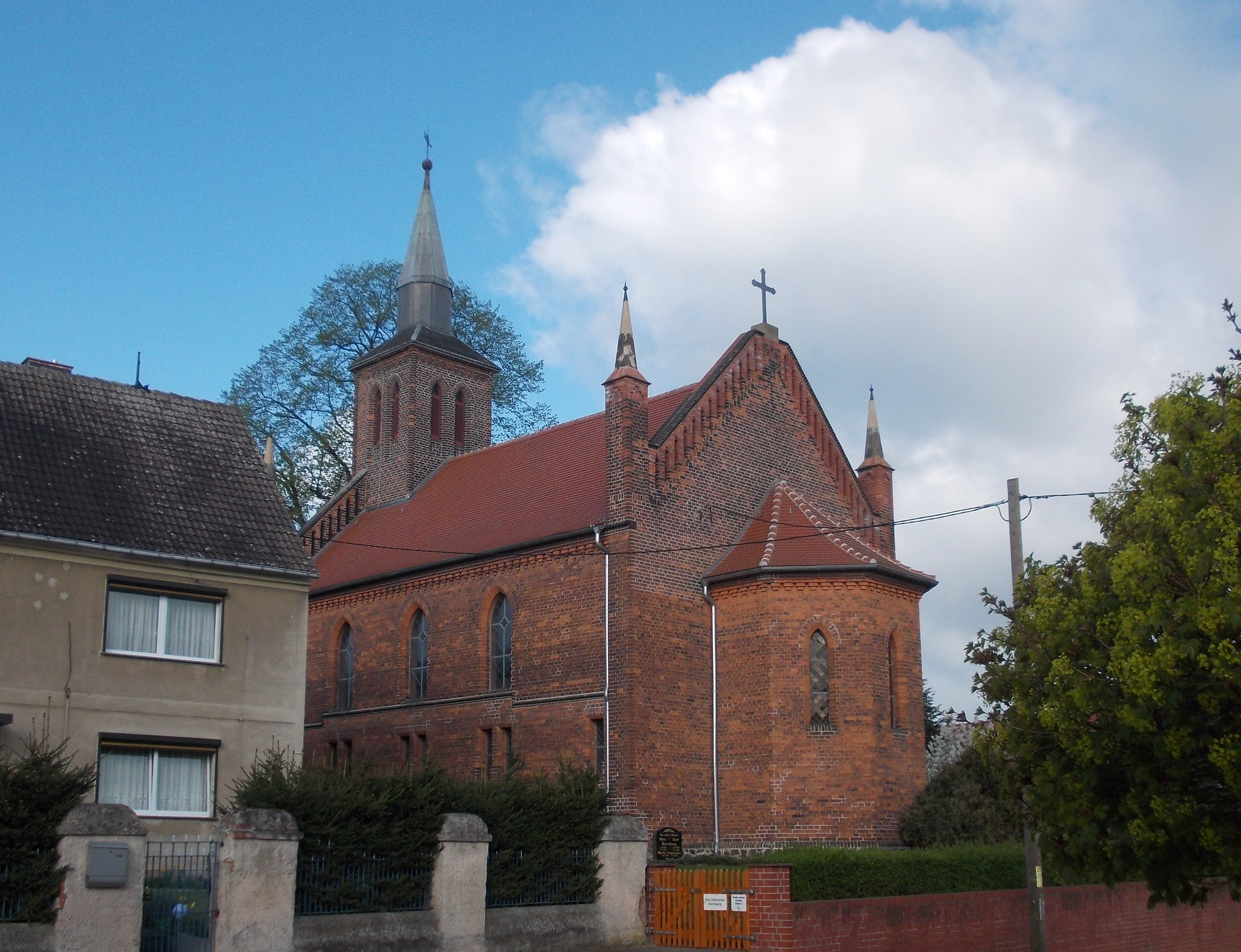 Greudnitz church (Dommitzsch, Nordsachsen district, Saxony)